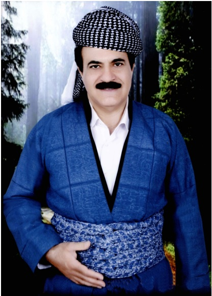 صديق حجي ولي عمر البرواري